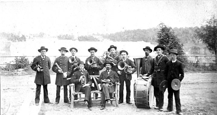 An 1883 photograph of the Newmarket Citizens' Band. The musicians standing are: Fred Saxton, Mr. Dales, Silas Soules, N.J. Roadhouse, Bert Cane, Stanley Scott, Mr. Doan, Fred Bogart, James Moffat. Seated are Amos Hughes and band leader Mr Hilborne. Fred Saxton is the only member of the band's 1872 original founders in this photograph.